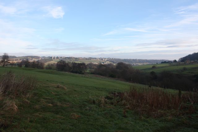 View towards Mount from the Roman Fort at Slack The foreground is in shadow from low cloud clinging to the Moors above Outlane, but the low winter sun picks out Junction 23 on the M62 motorway and the residential area of Mount. The motorway follows the same route through Outlane as did the Roman road from Chester to York. The Roman Fort at nearby Slack was sited on a south-facing hillside and sheltered from the north and west - an ideal place to rest before crossing the Pennine moors.